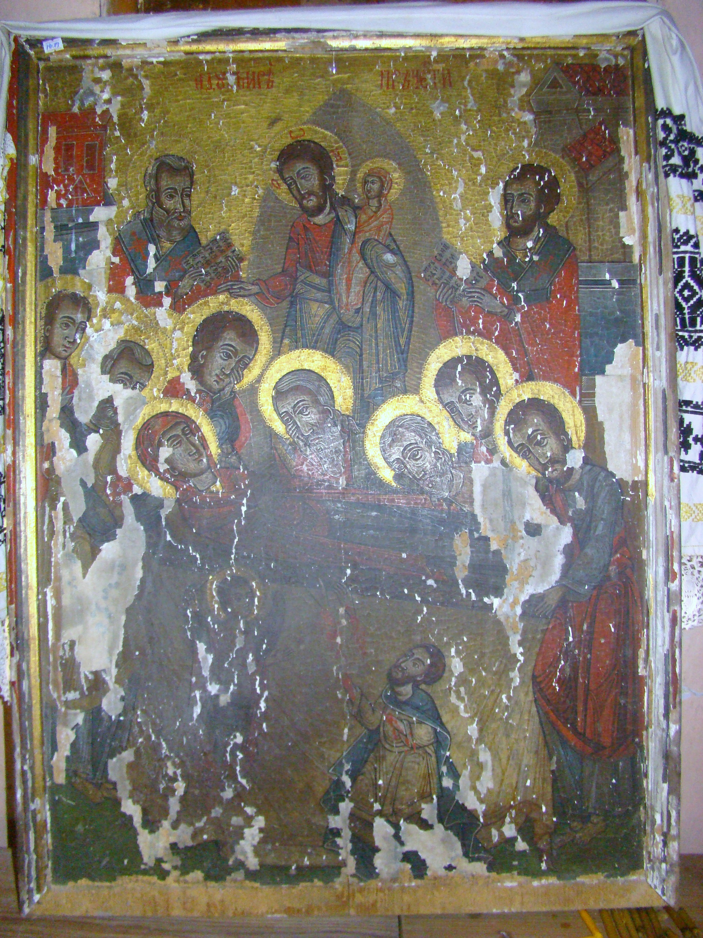 The wooden church in Săsăuș, Sibiu county, Romania